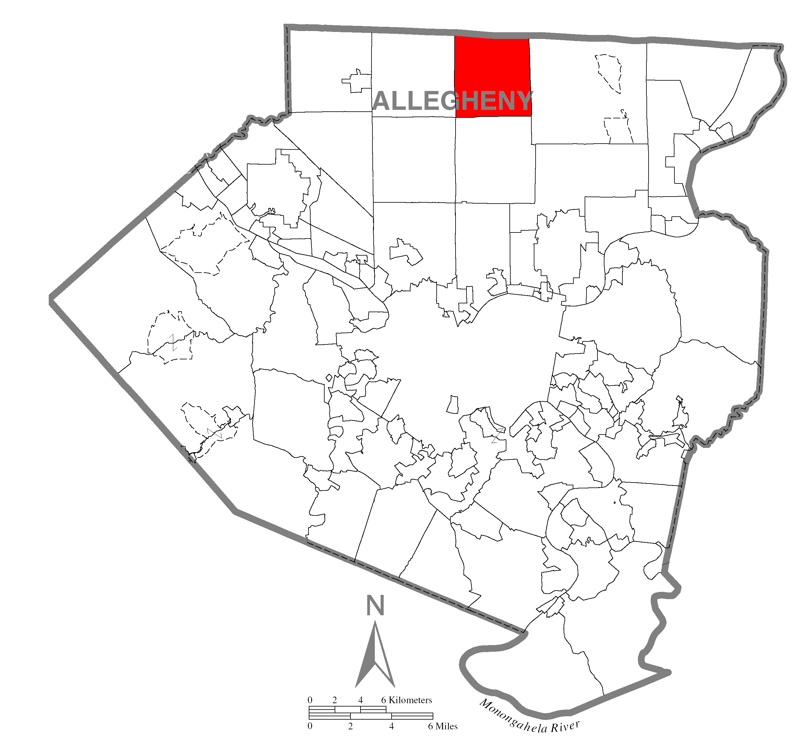 A map of Allegheny County showing Richland Township, Pennsylvania (alternate) highlighted on the map.